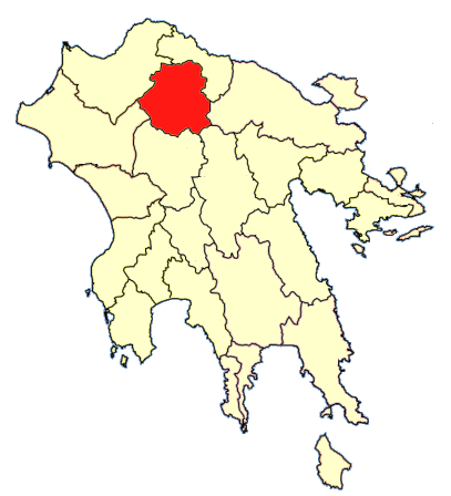 kalavryta province